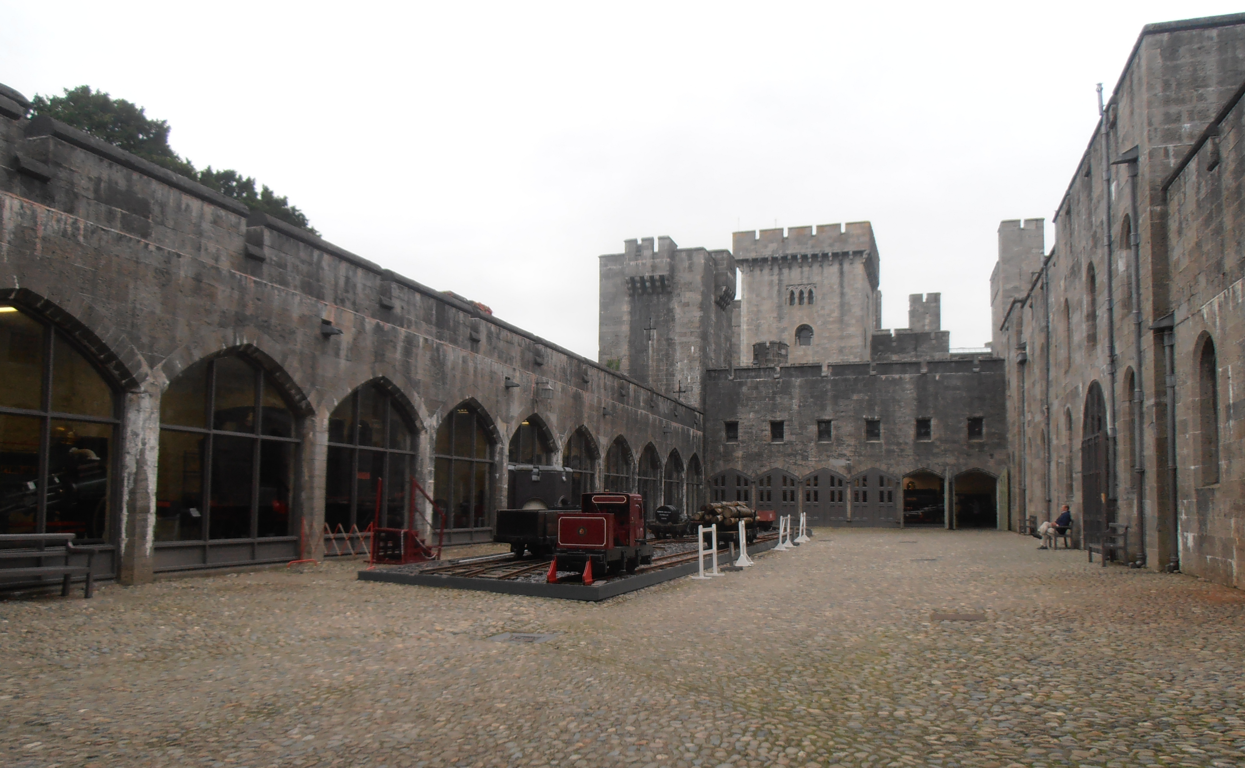 Penrhyn Castle, Gwynedd; Grade 1 listing; Cadw. North Wales